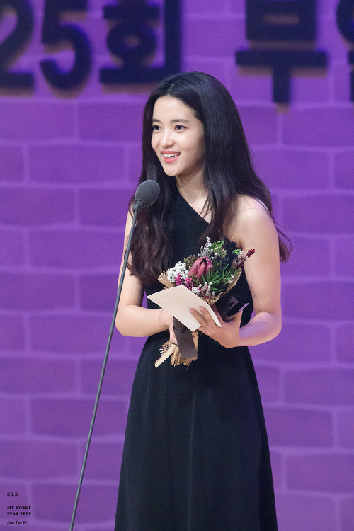 Kim Tae-ri at the Buil Film Awards in Busan.